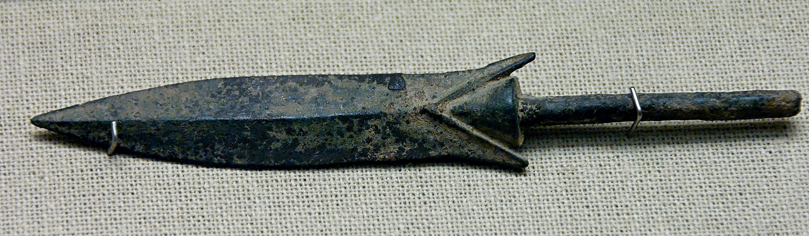 Arrow-head. Bronze, 4th century BC. From Olynthus, Chalcidice.